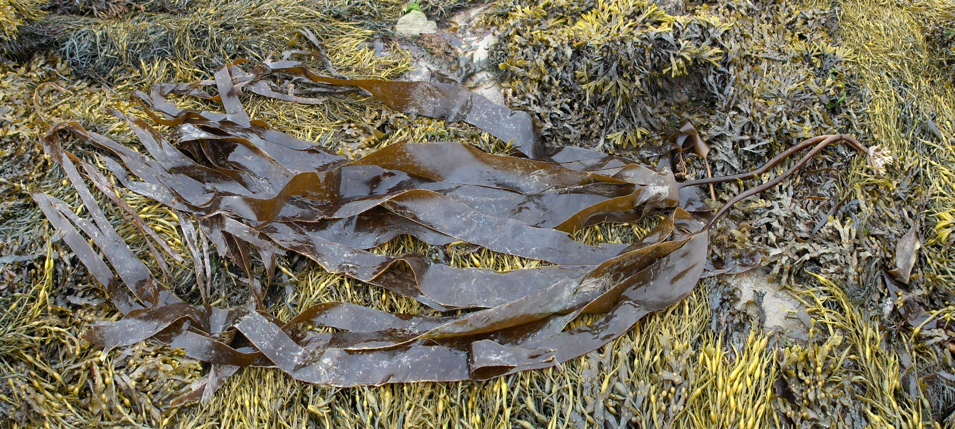 Two fronds of Laminaria digitata washed up on the foreshore of Anglesey, Wales, UK; background is mostly Ascophyllum nodosum. Total length of fronds is c. 8 ft (2.4 m).